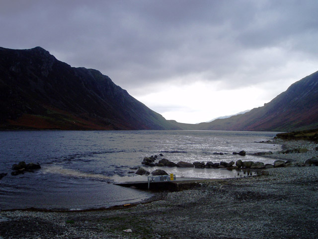 Inflow into Llyn Cowlyd Water from Llyn Eigiau is piped in a tunnel into Llyn Cowlyd. Both lakes are part of an extensive system of reservoirs which feed the Dolgarrog hydro power station in the Conwy valley. More details at